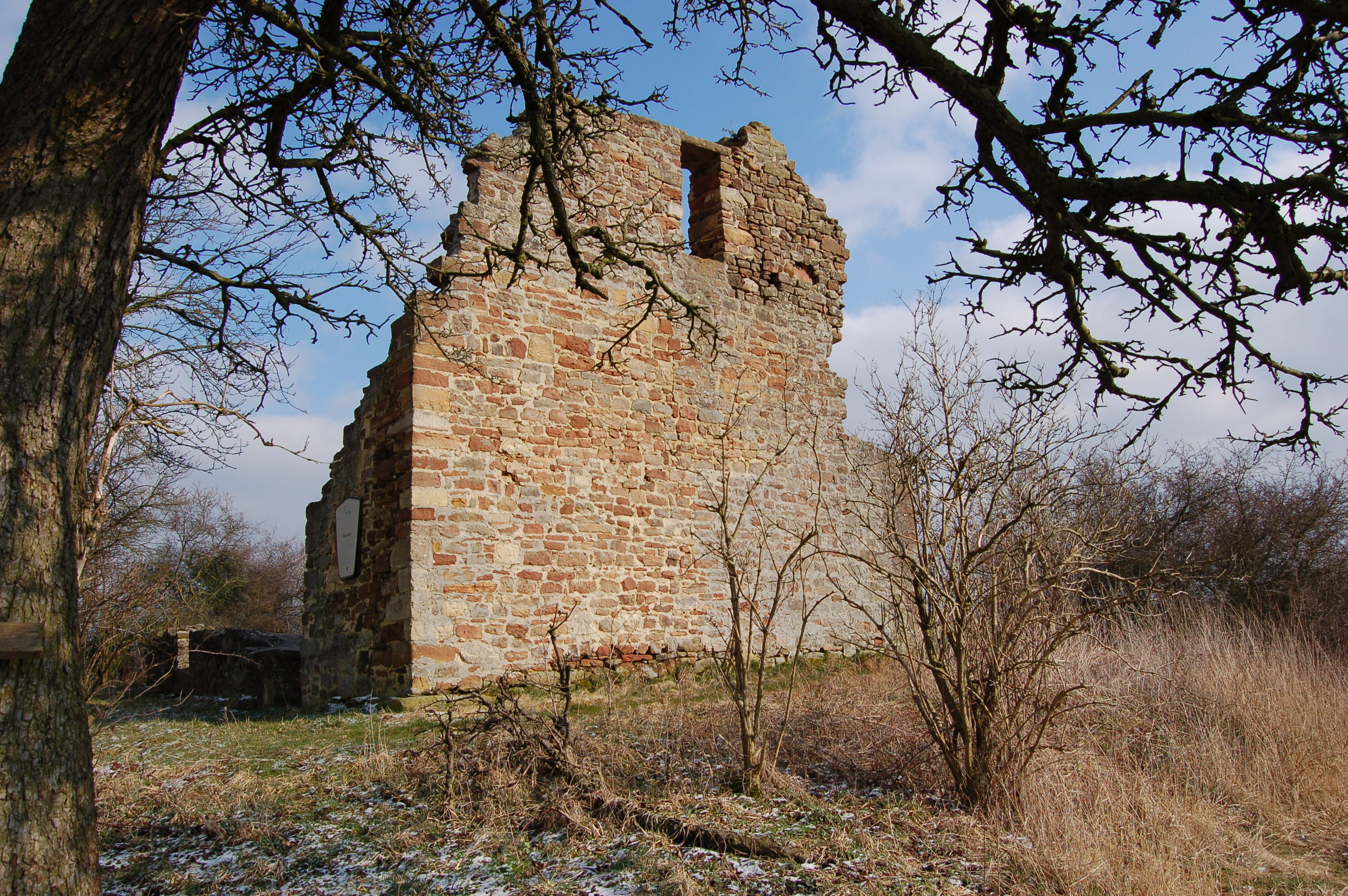 Ruin of the Church of abandoned village "Klinge" near Sachsenhausen (Waldeck)